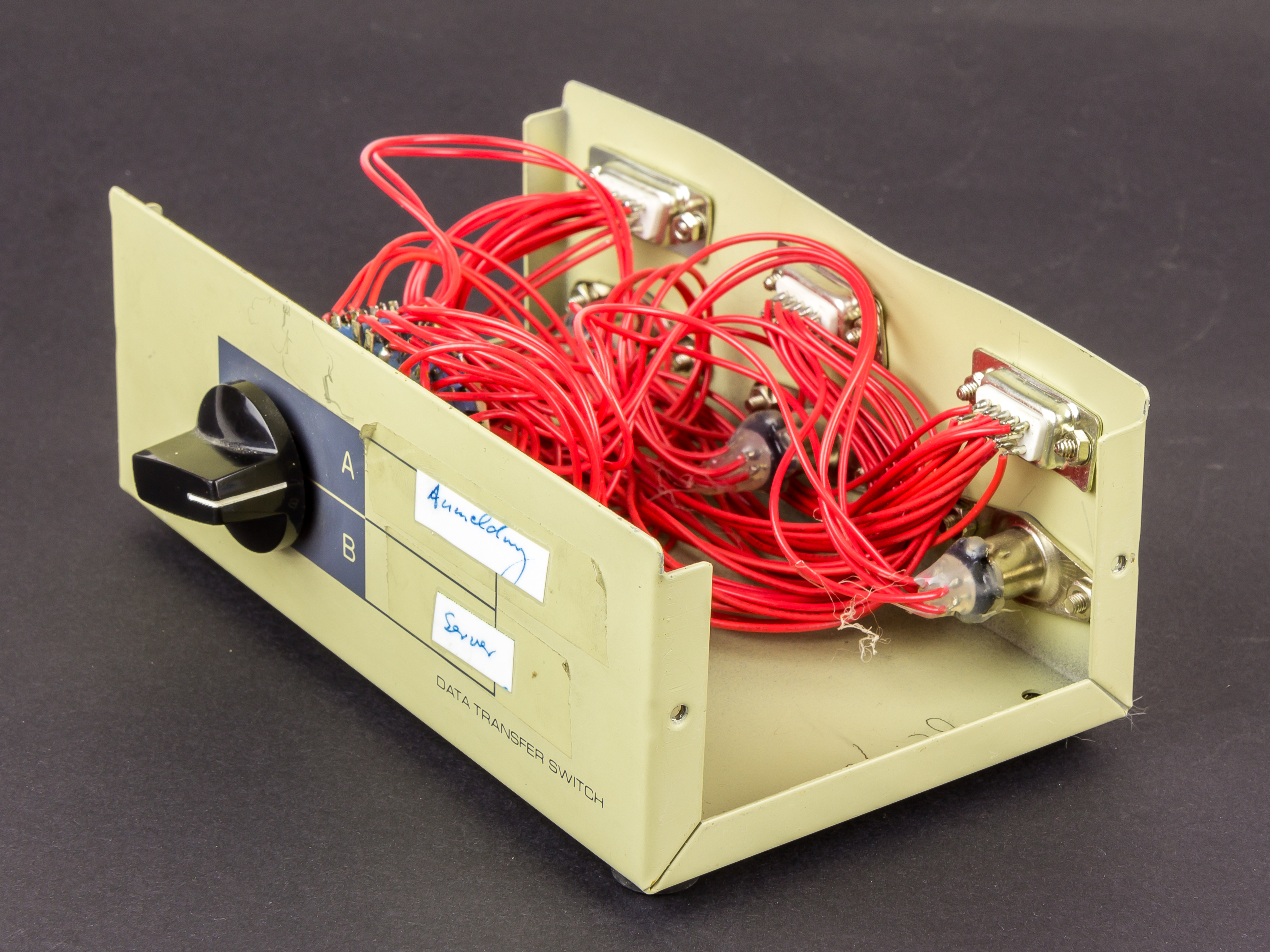 Data Transfer Switch with female DE-15 connector (socket) for video (VGA) and serial PS/2 port for the keyboard